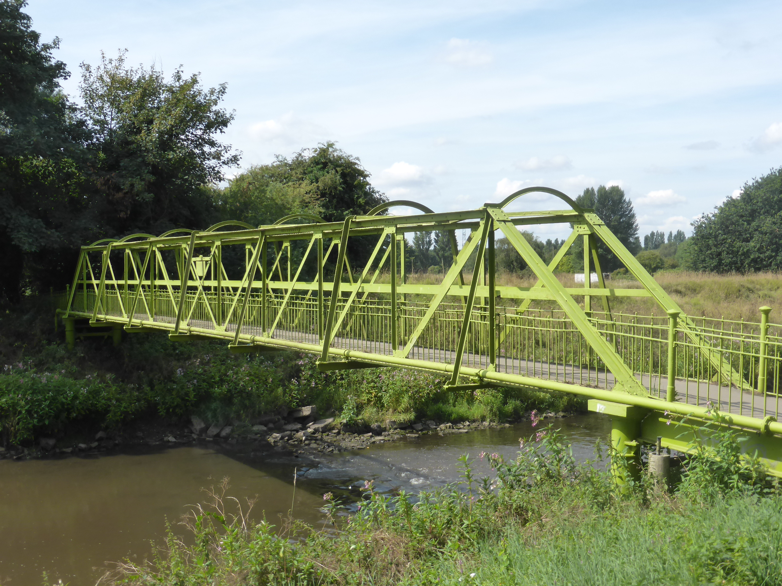 The bridge is named after German-born engineer Henry Gustav Simon. He died in 1899 and the money he left behind was used to build this bridge which was completed in 1901. Photo taken on Wednesday 25th July 2018